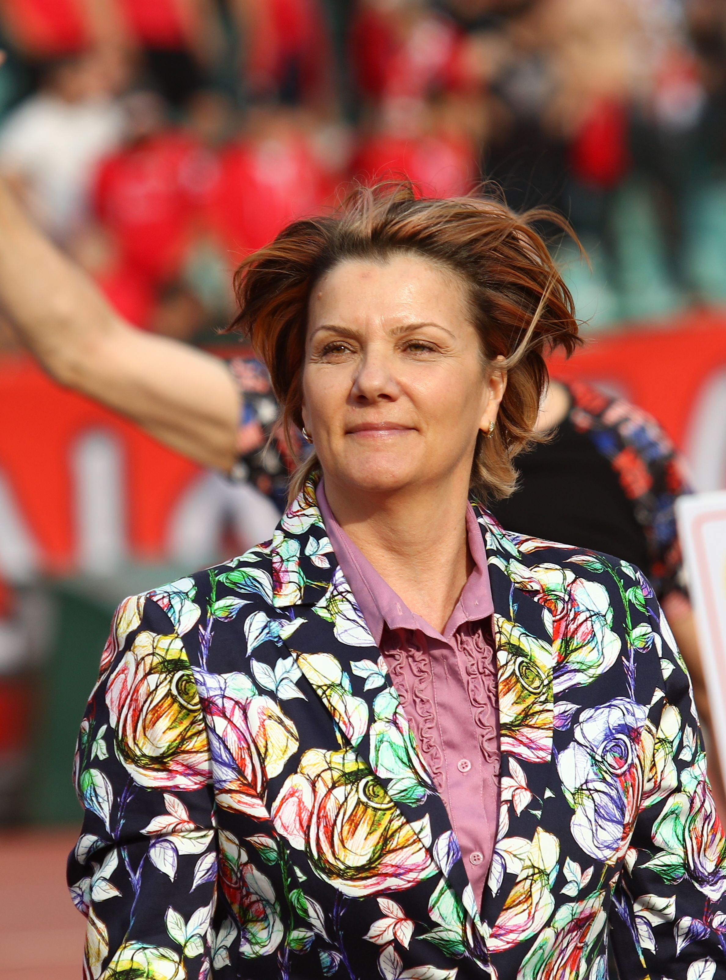 Tanya Bogomilova Dangalakova (born June 30, 1964) is a former breaststroke swimmer from Bulgaria, who won the gold medal in the 100 m breaststroke at the 1988 Summer Olympics in Seoul, South Korea.